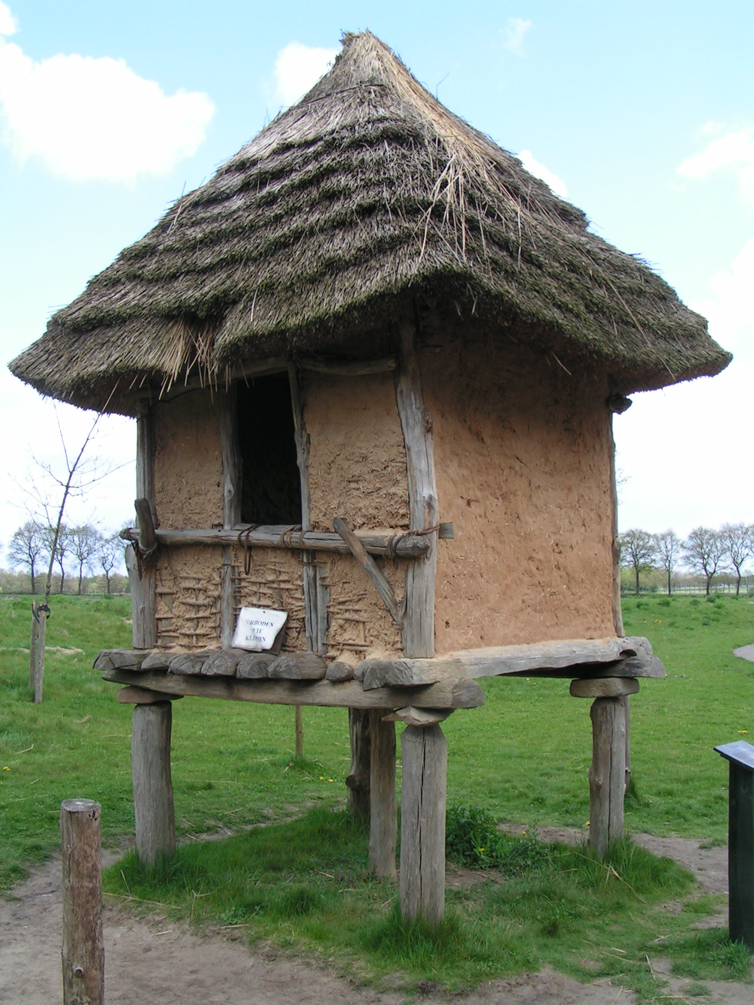 Outdoor exposition at Borger "Hunebedcentrum" (Drenthe / Netherlands)